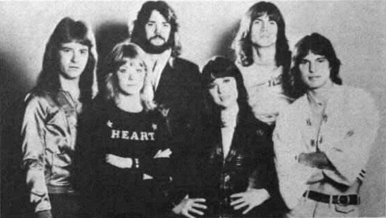 American rock band Heart in 1977.